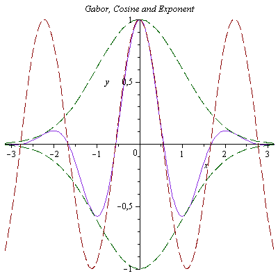 Cosine, Exponent and Gabor